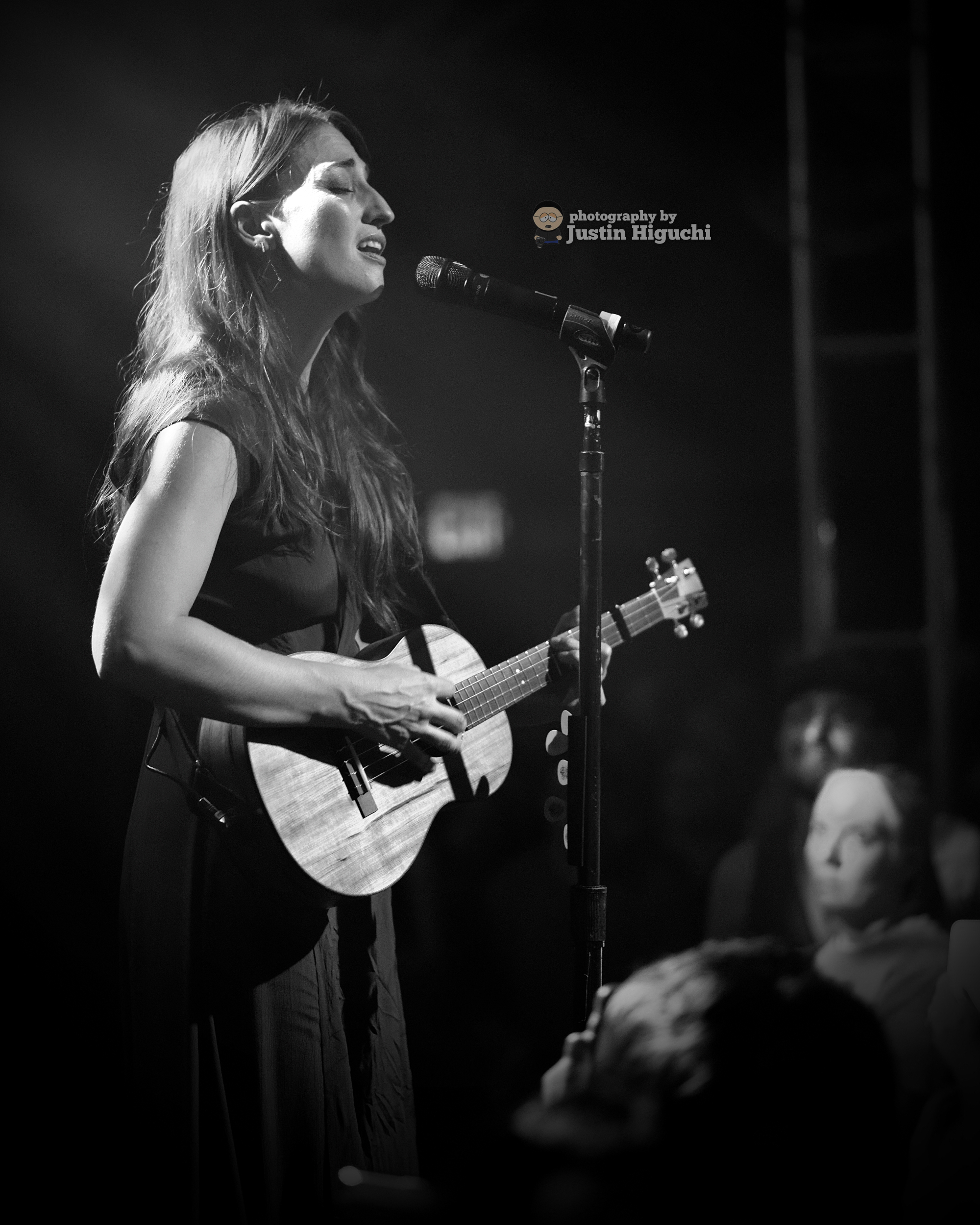 Sara Bareilles performing live at The Troubadour in Los Angeles California on Tuesday October 13th, 2015. This show was a performance and interview to promote Sara's new book "Sounds Like Me: My Life (so far) in Song".